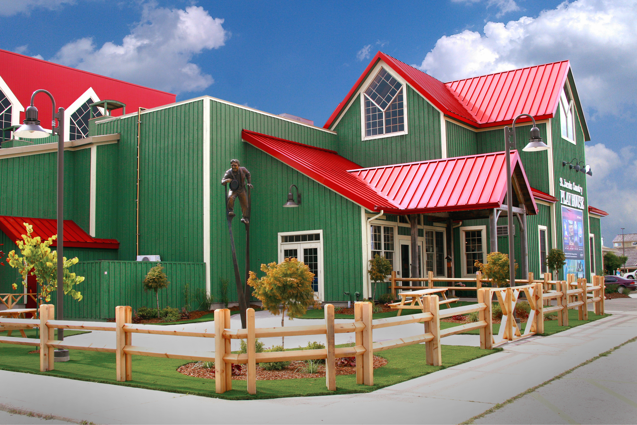 St. Jacobs Country Playhouse - 2016